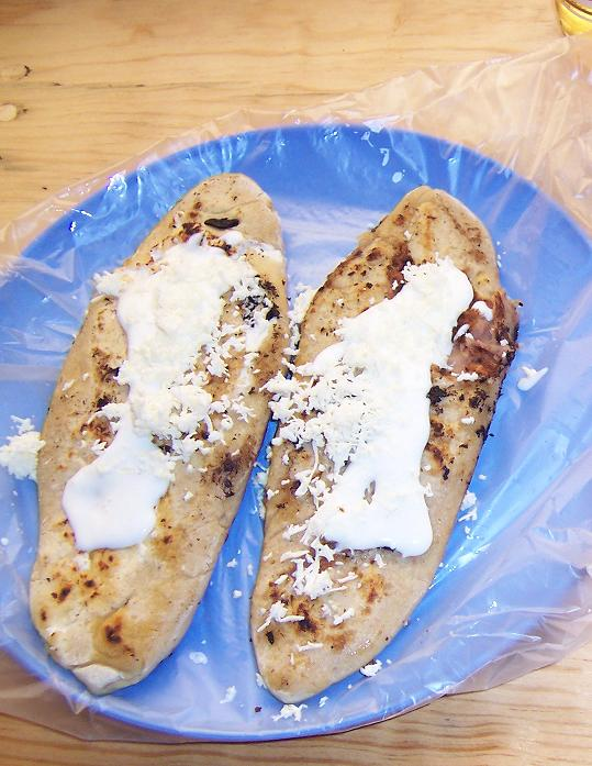 Tlacoyos stuffed with cheese (left) and beans (right) and covered with sour cream. Served in the market in Tepotzlan, Morelos, Mexico.